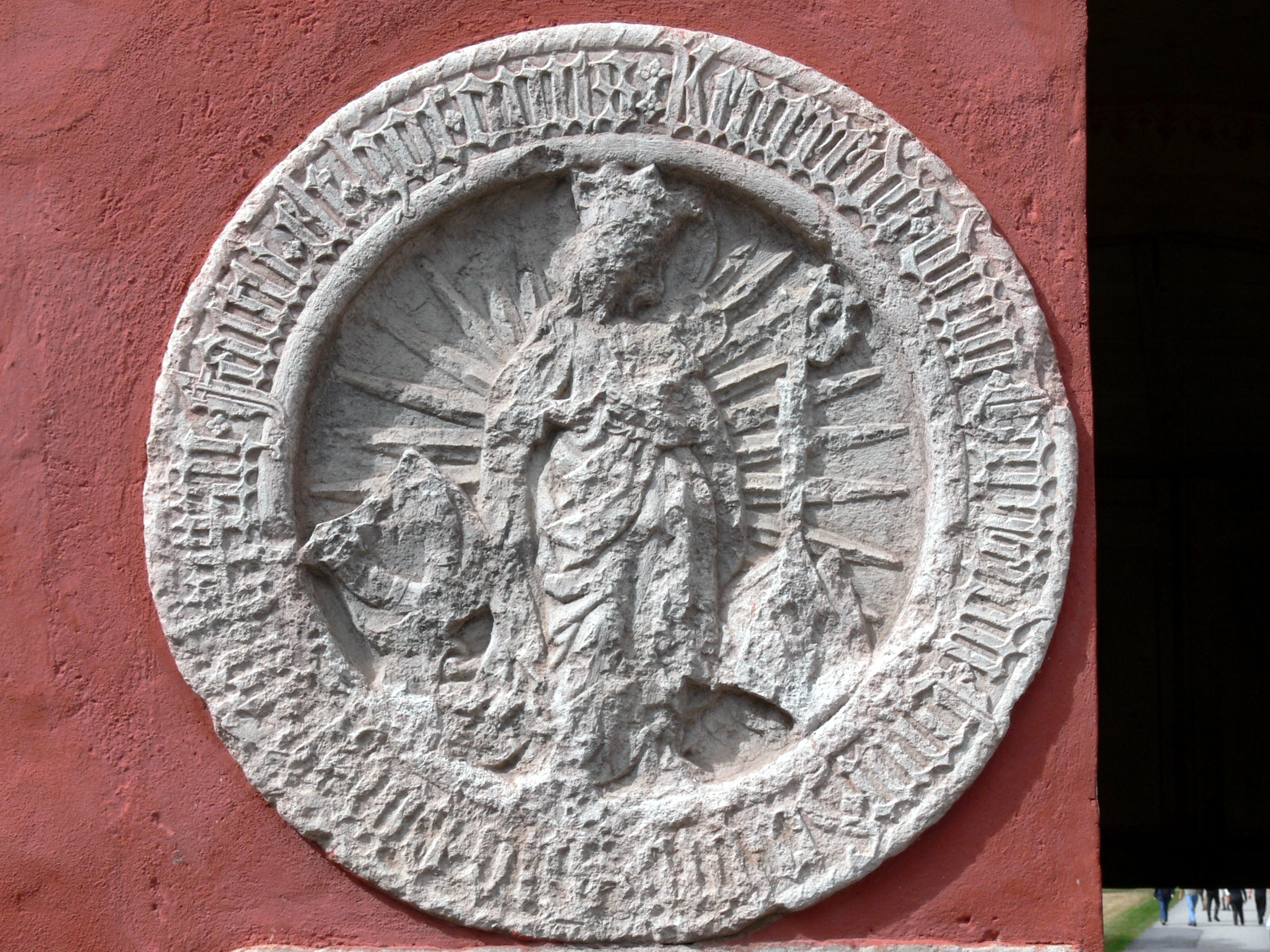 Gripsholm castle. Coats of arms of former monastery of Mariefred